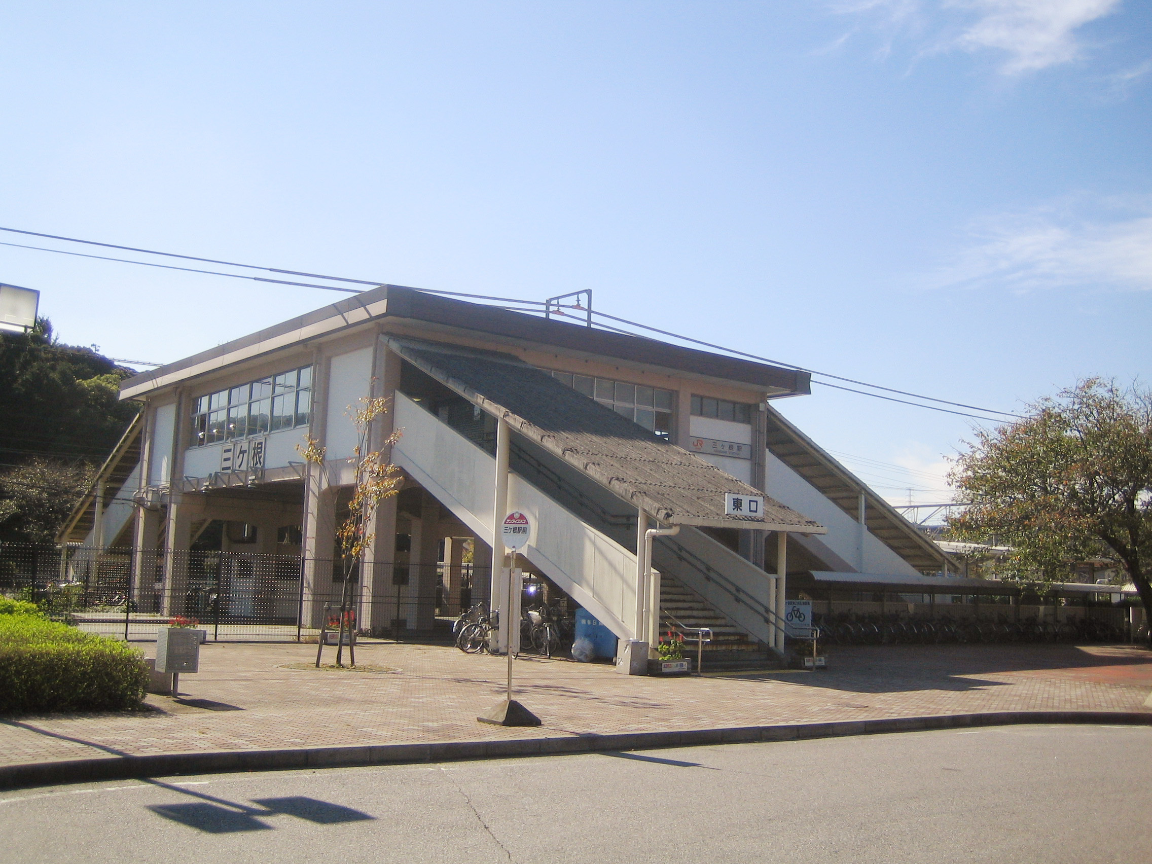 Sangane Sta. (三ヶ根駅), in Kota, Aichi, Japan